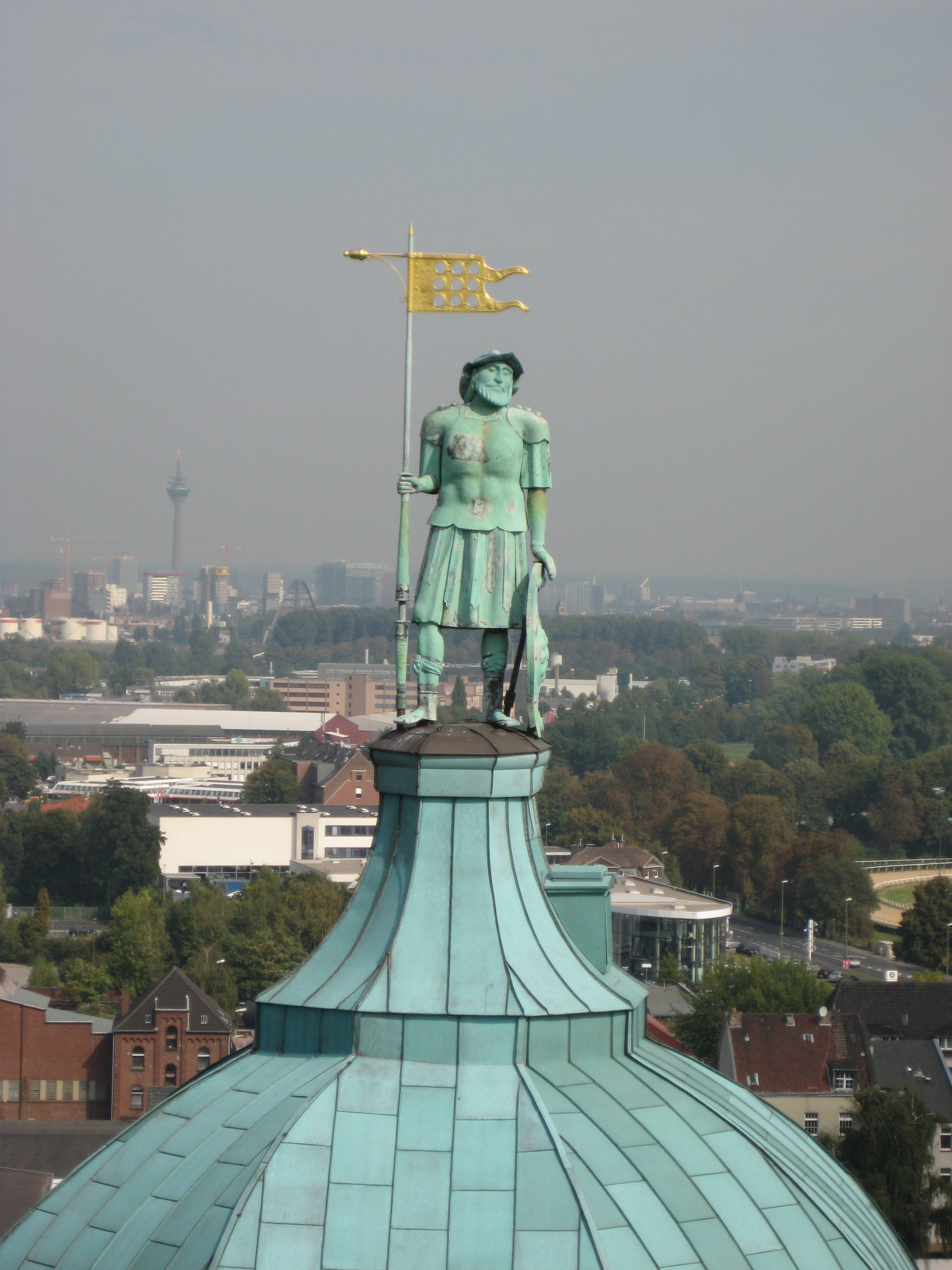 statue figure of Quirinus_of_Neuss